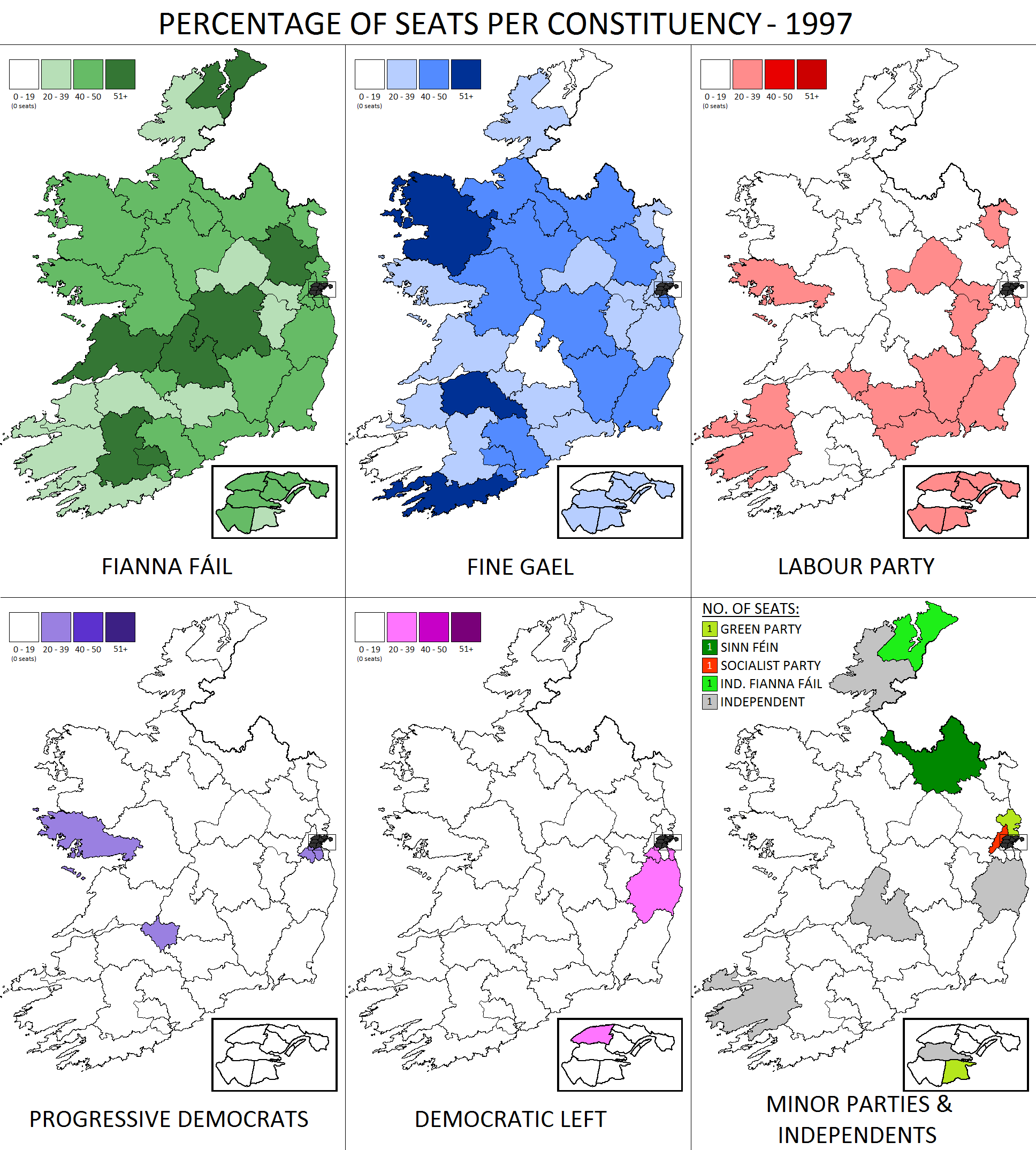 Graphical representation of the 1997 Irish general election results. Created by myself using data from Wikipedia and literary sources.